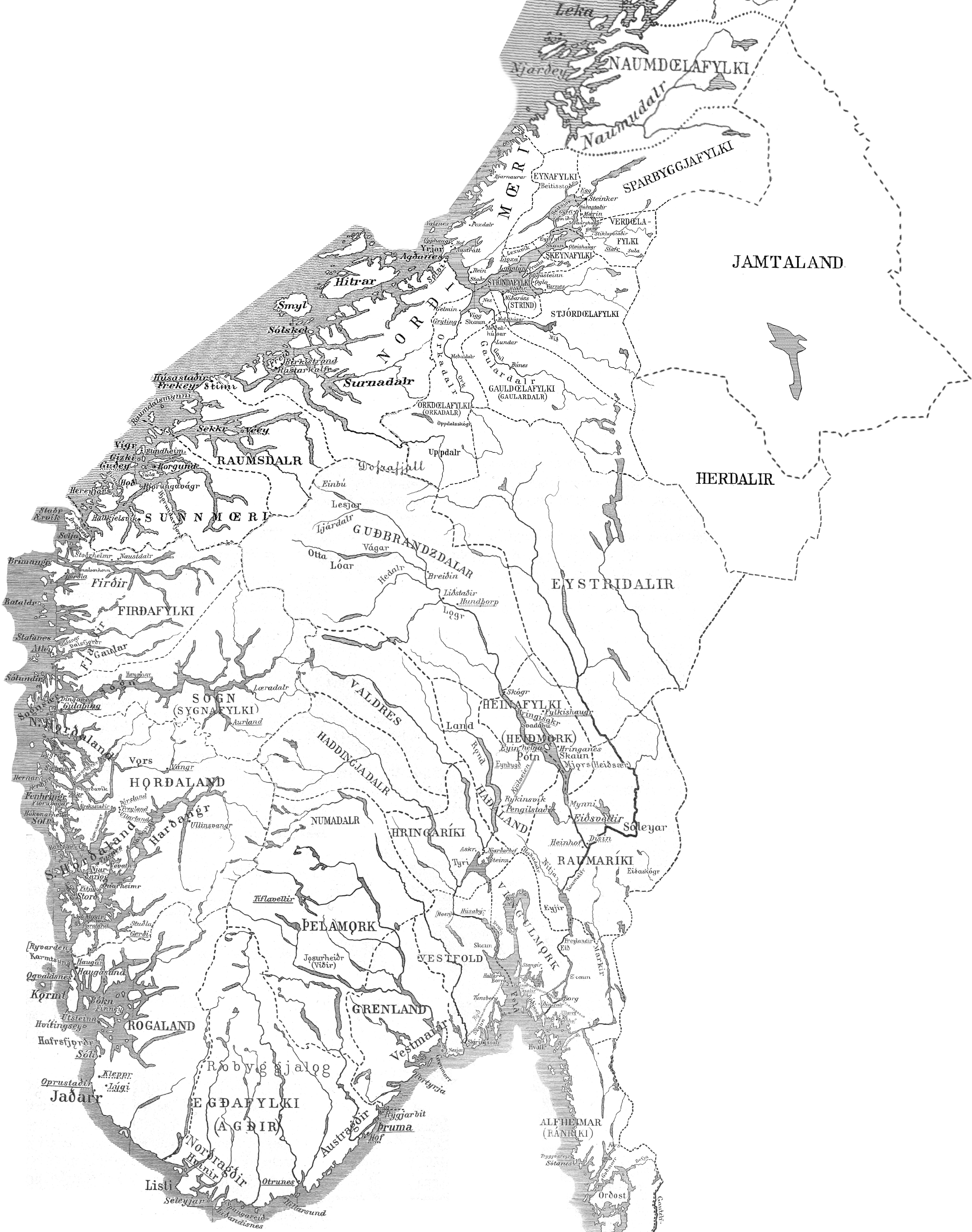 Map of southern Norway in the viking age, based on maps by Ivar Refsdal, 1, 2, 3, 4, 5, 6, 7.